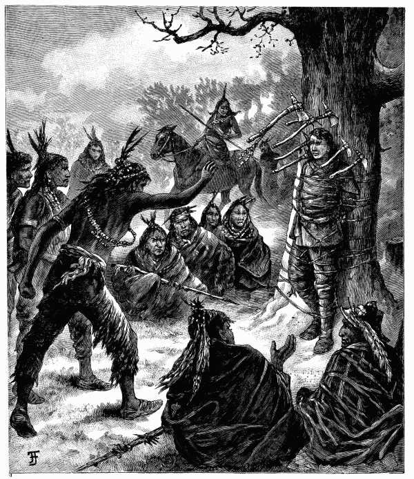 The Deerslayer in the Hands of the Indians.